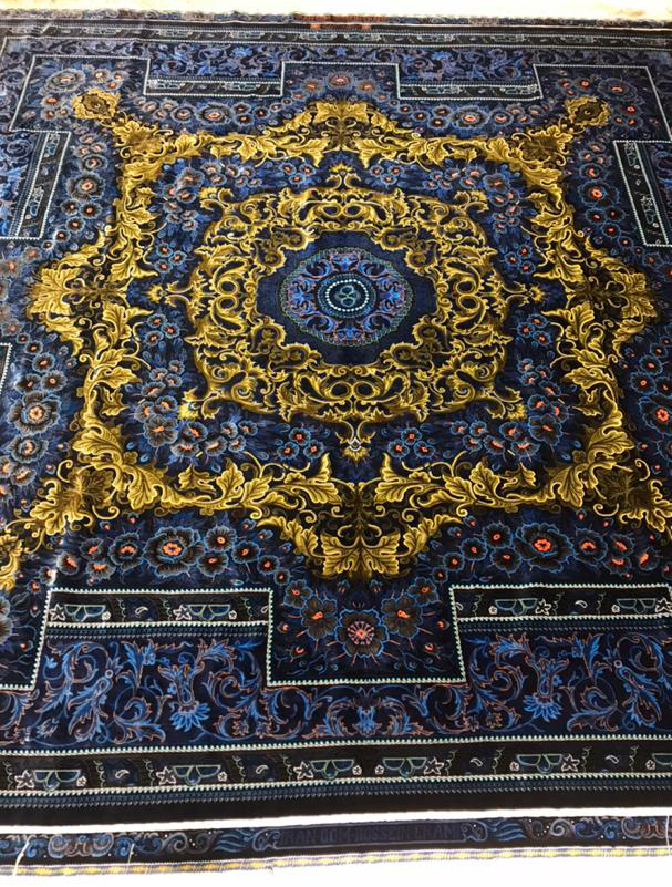 Qom rug presented to Abe in his visit to Iran